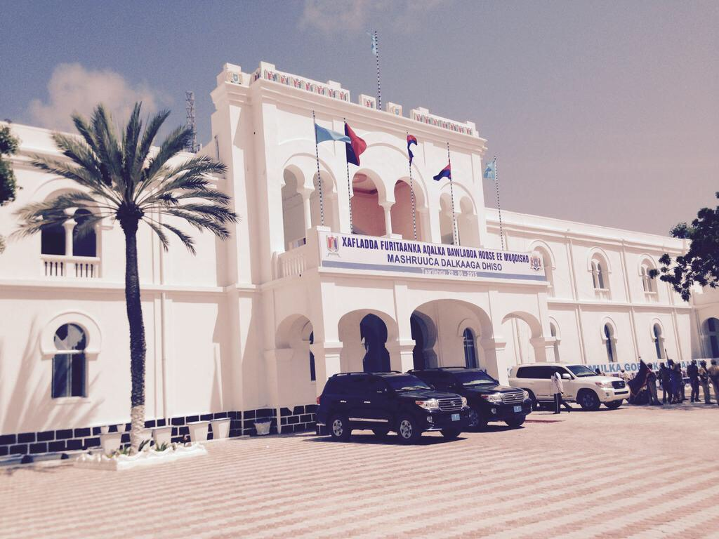 The newly renovated Mogadishu municipality headquarters.